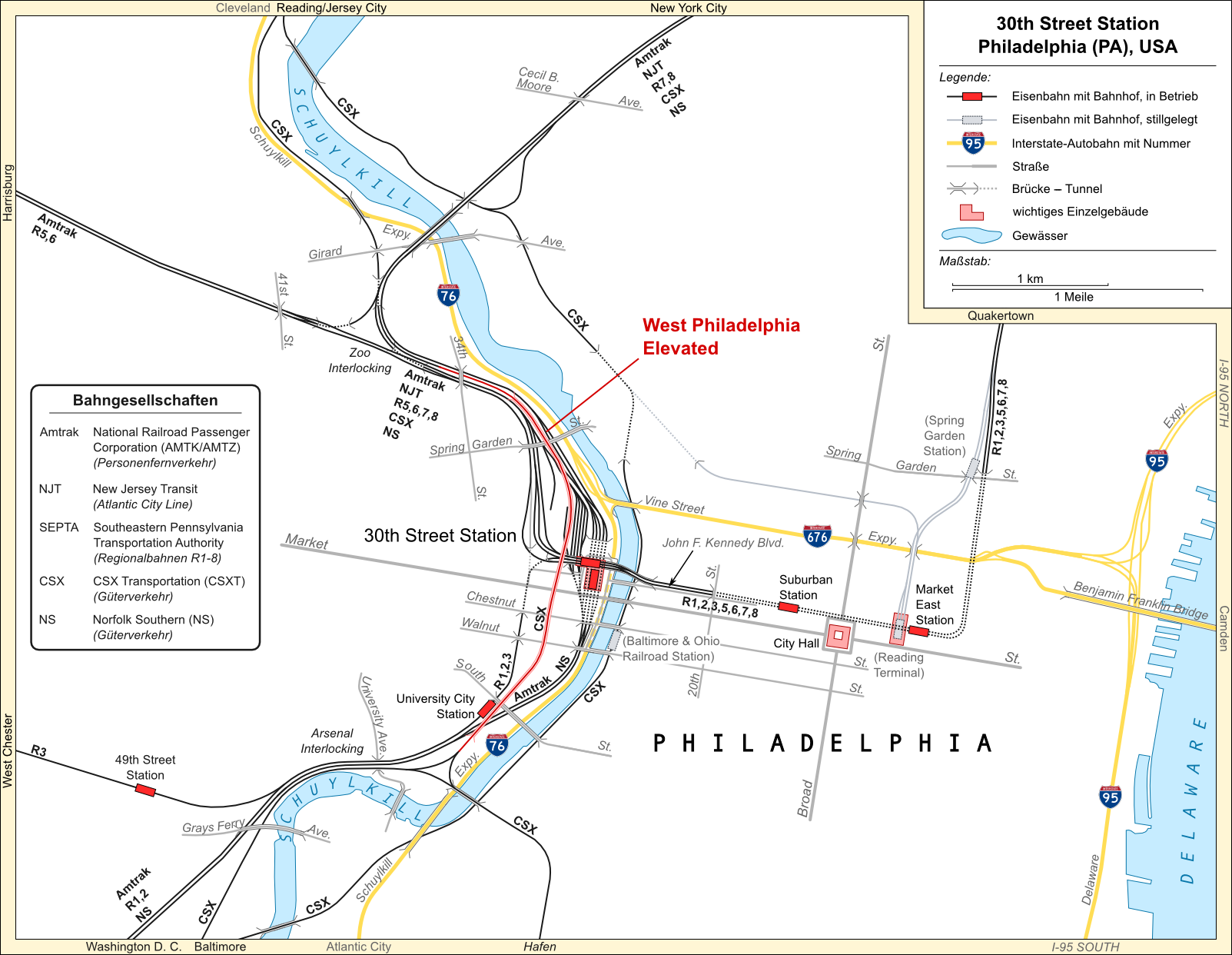 Map of 30th Street Station area showing the West Philadelphia Elevated, Philadelphia, Pennsylvania, United States (German version).